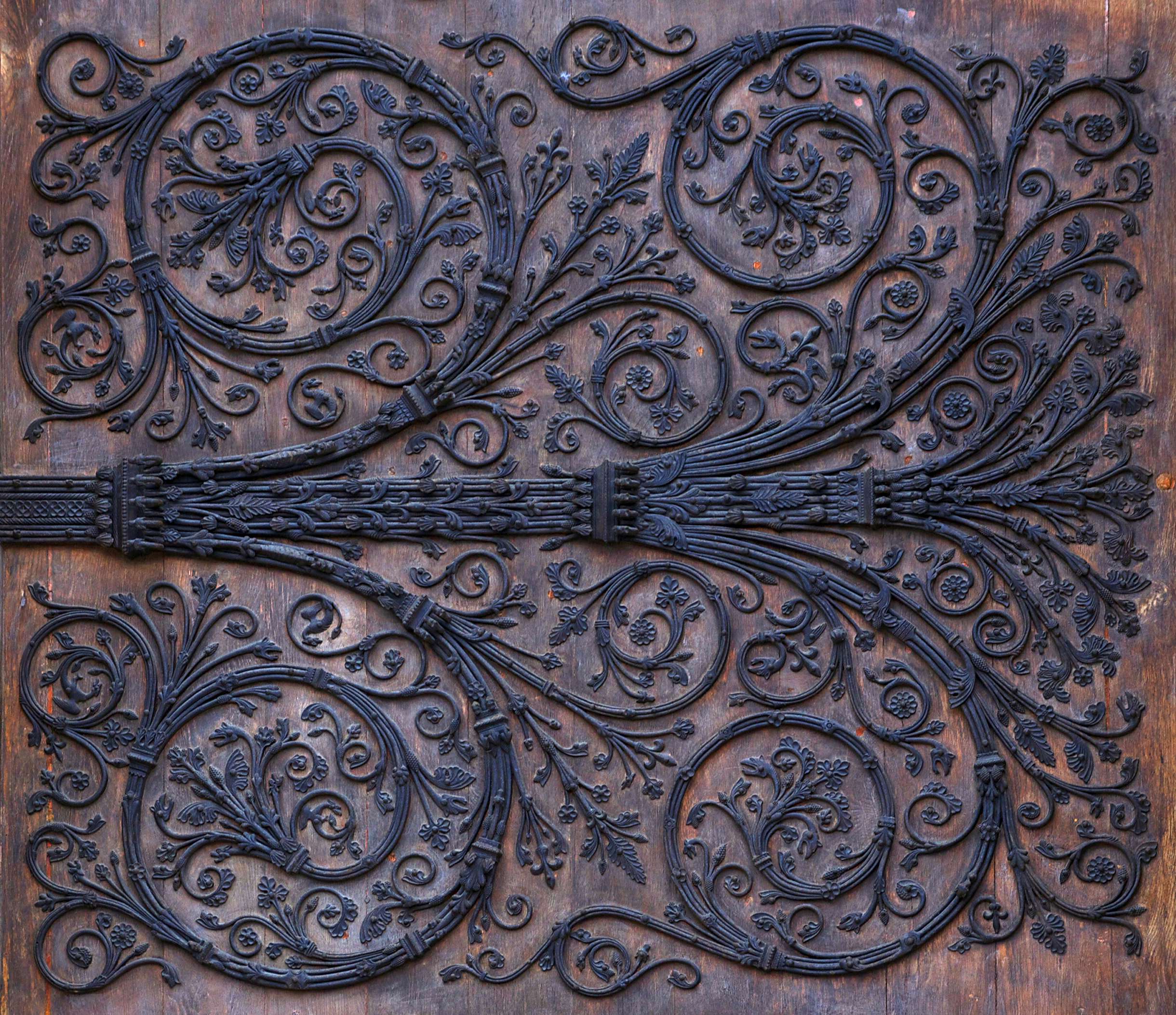 Ironwork on the central portal ("last Judgment") of the western façade of Notre-Dame de Paris, France